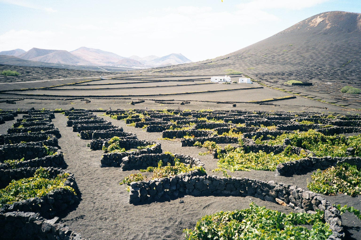 Stone walls are protecting the wine plants in the dry lava fields of La Geria, Lanzarote, Canary Islands.